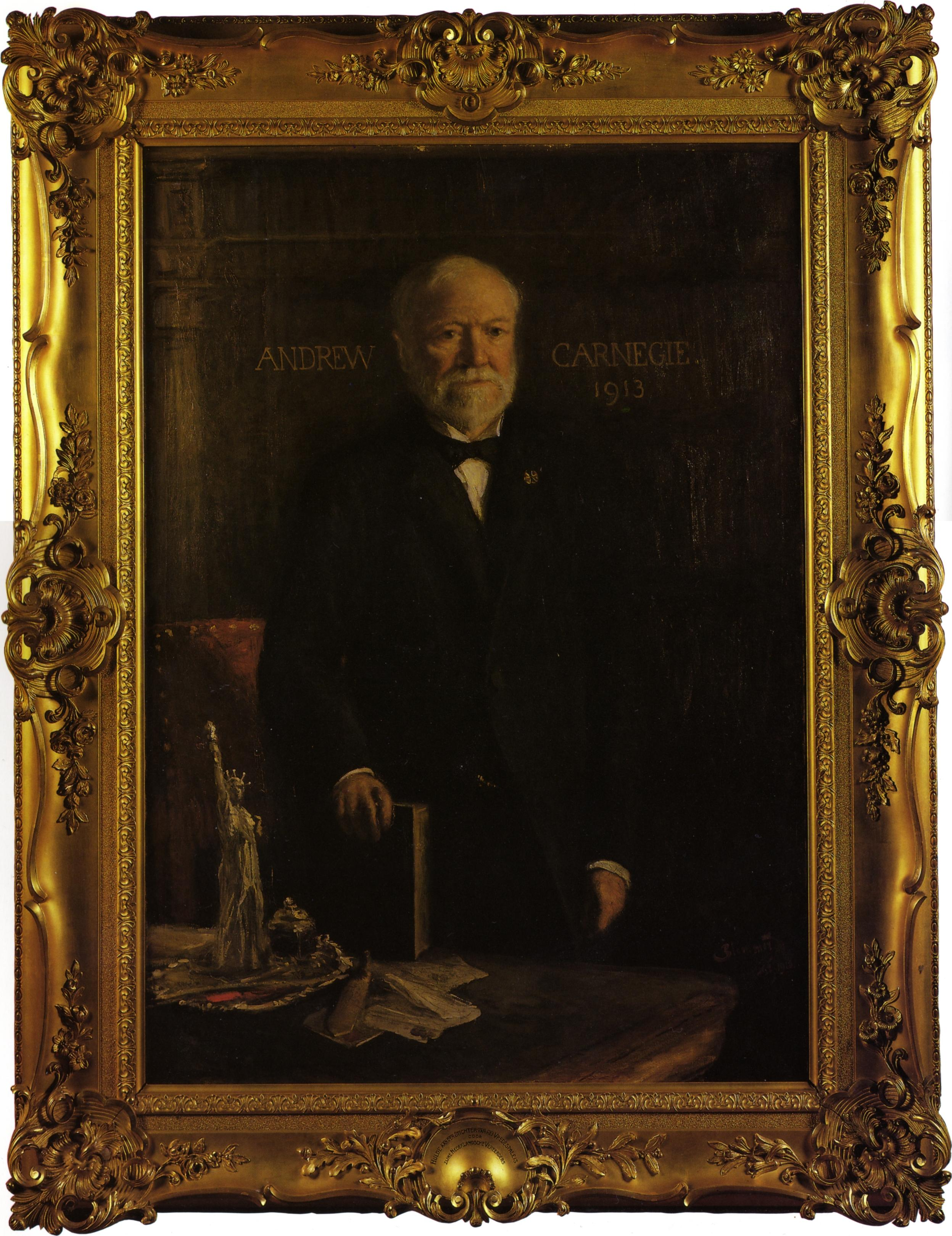 Bernard Blommers. Andrew Carnegy. 1913. Oil on canvas (?).